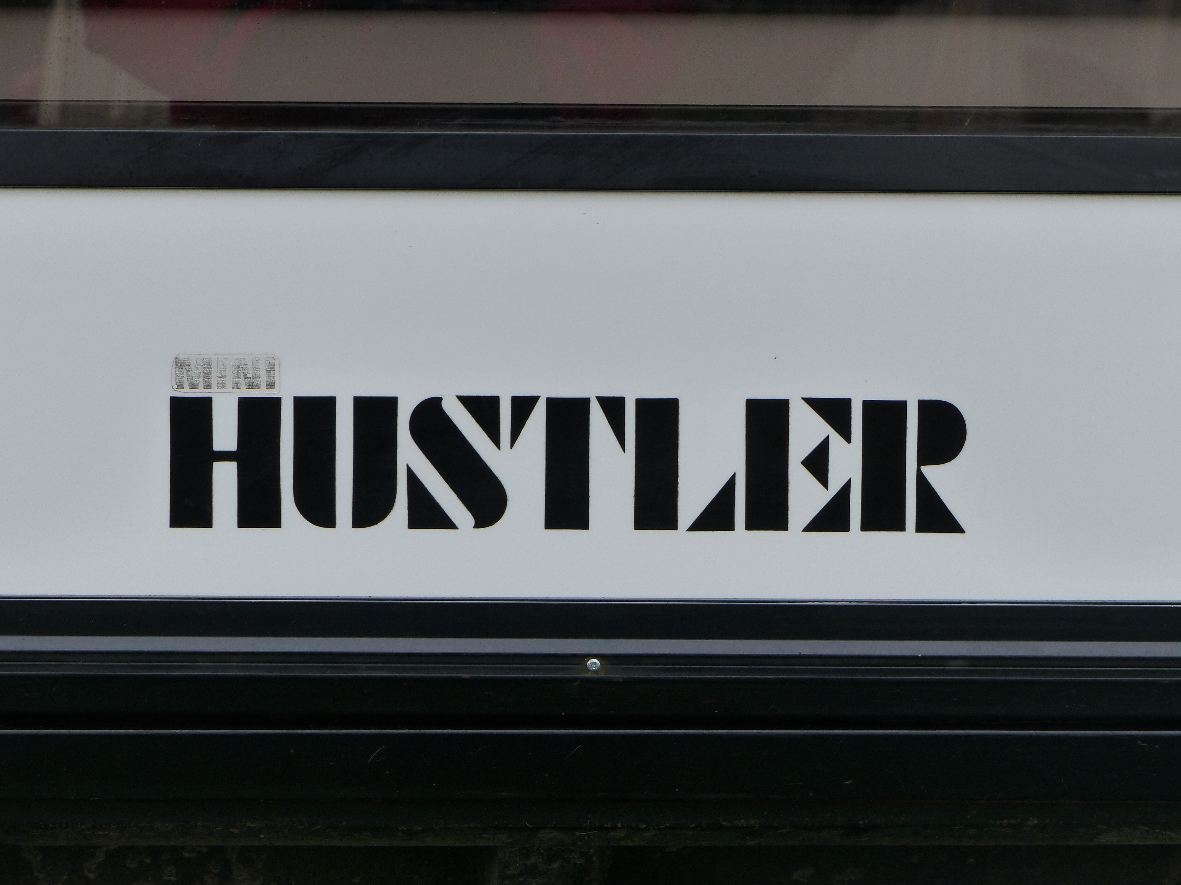 The badge on the Mini-based Hustler kit car.